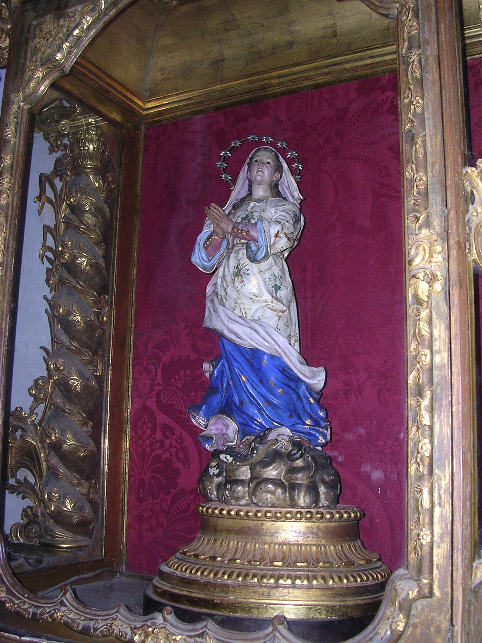 Pregnant Virgin, church San Juan Bautista (or San Juan de los Remedios), Remedios, Cuba.